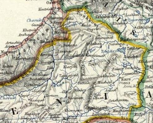 Turkey in Asia, Asia Minor, and Transcaucasia. By Keith Johnston, F.R.S.E. Engraved & printed by W. & A.K. Johnston, Edinburgh. William Blackwood & Sons, Edinburgh & London, (1861)